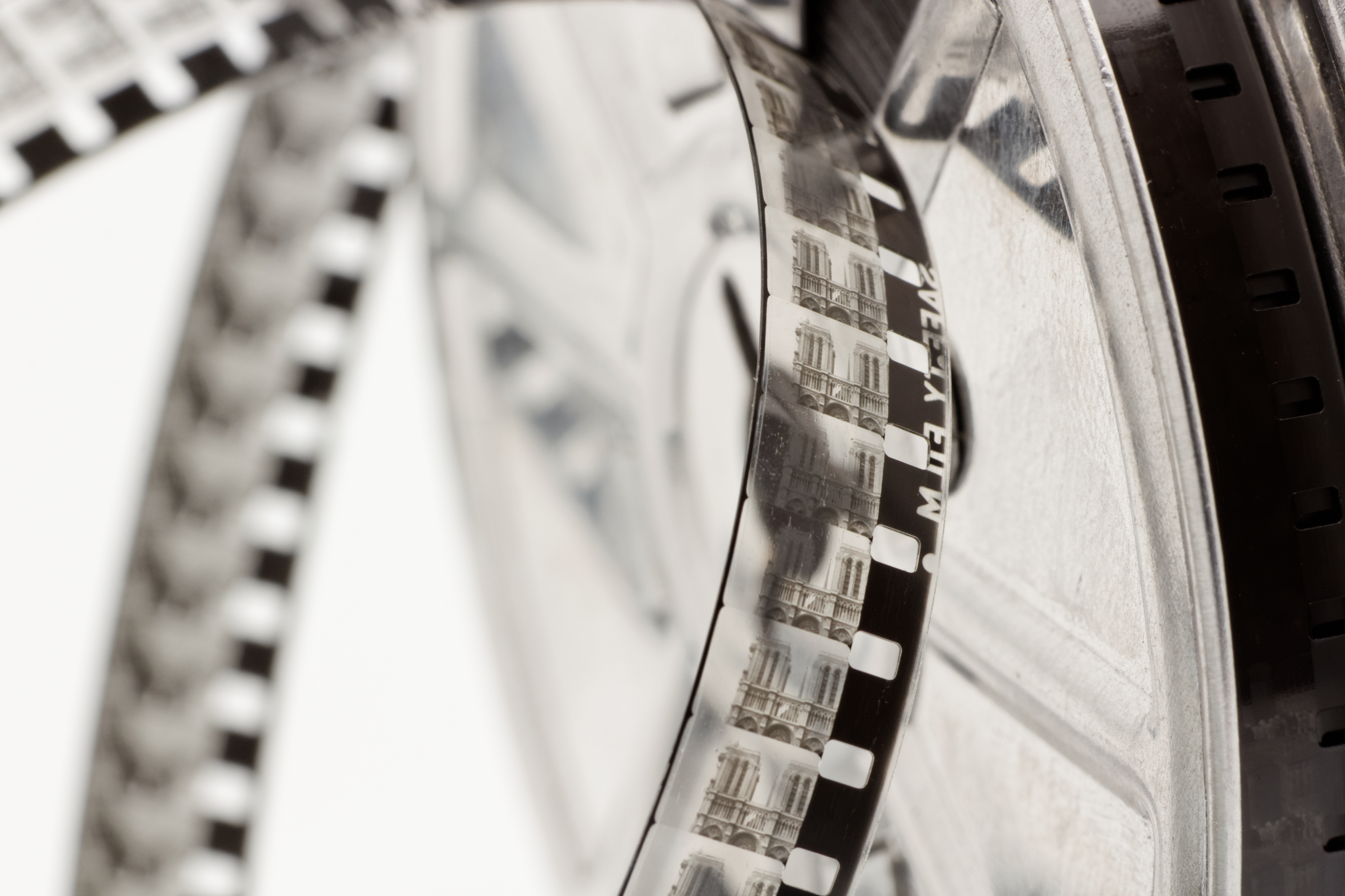 8 mm Kodak film reel